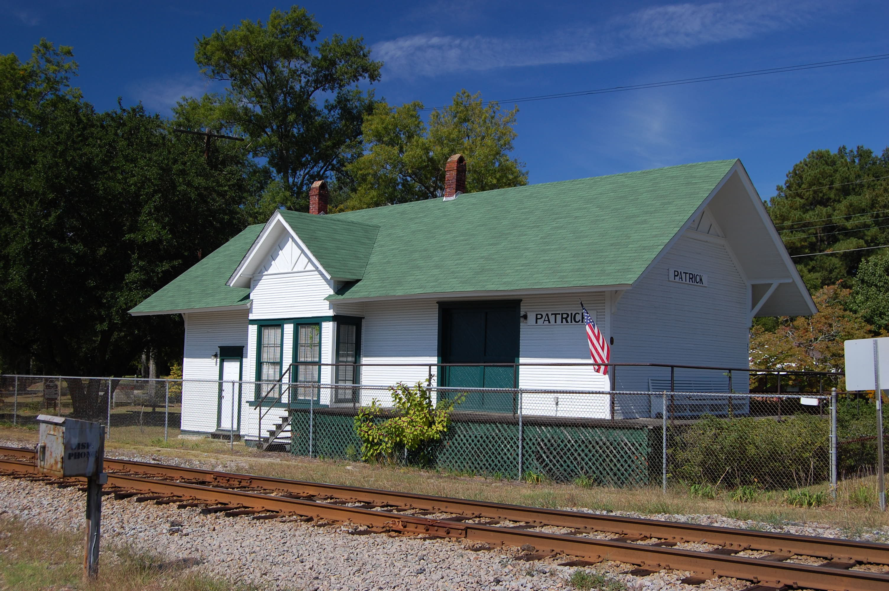 Train station in Patrick, South Carolina 34°34′29.9″N 80°2′46.4″W / 34.574972°N 80.046222°W